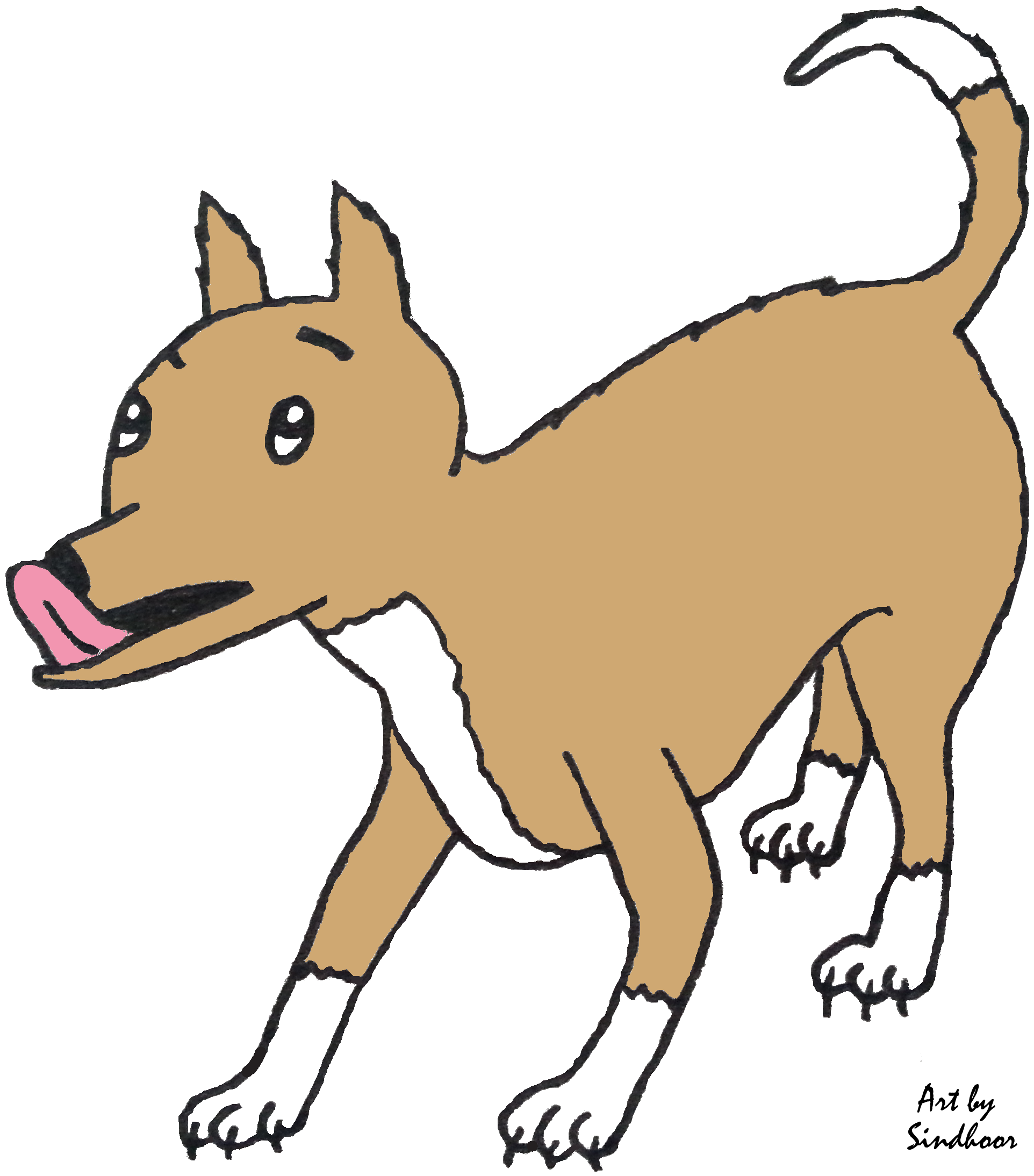 Lip Licking is a Calming Signal